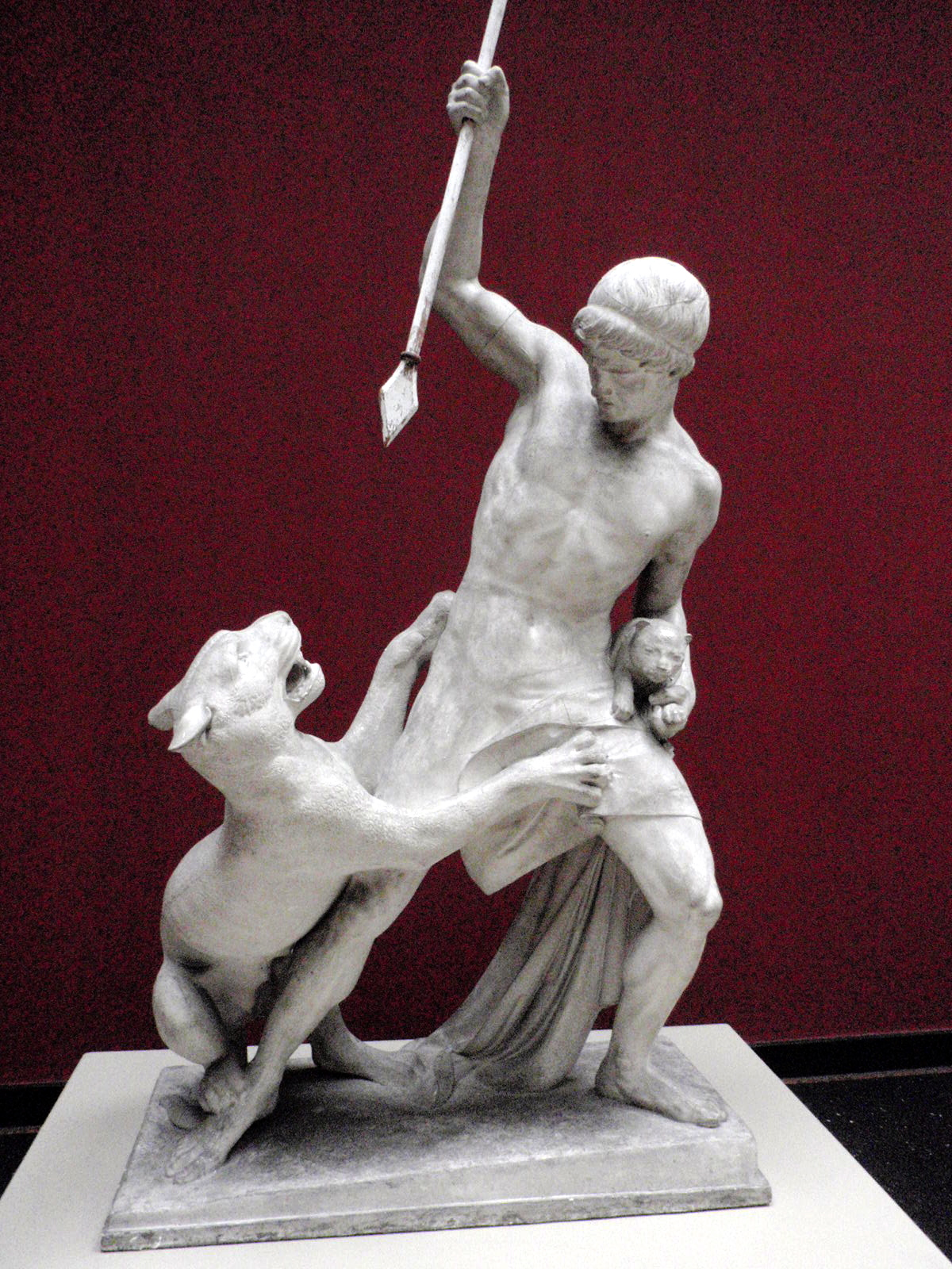 "The Panther Hunter" by Jens Adolf Jerichau. Photo taken at the Ny Carlsberg Glyptotek Museum